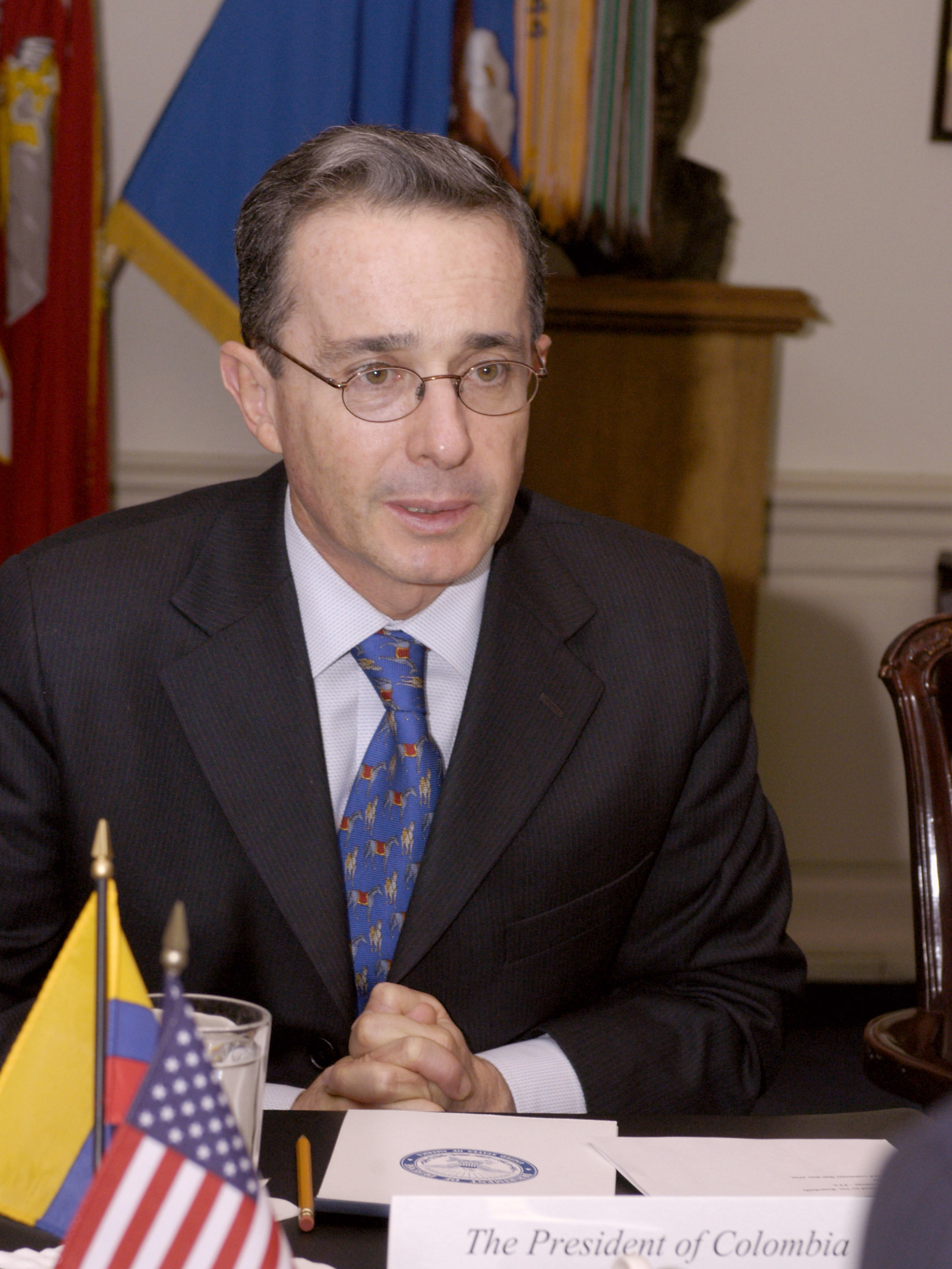 Colombian President Alvaro Uribe meets with Secretary of Defense Donald H. Rumsfeld in the Pentagon on March 22, 2004. Uribe, Rumsfeld and their senior advisors are meeting to discuss defense issues of mutual interest.